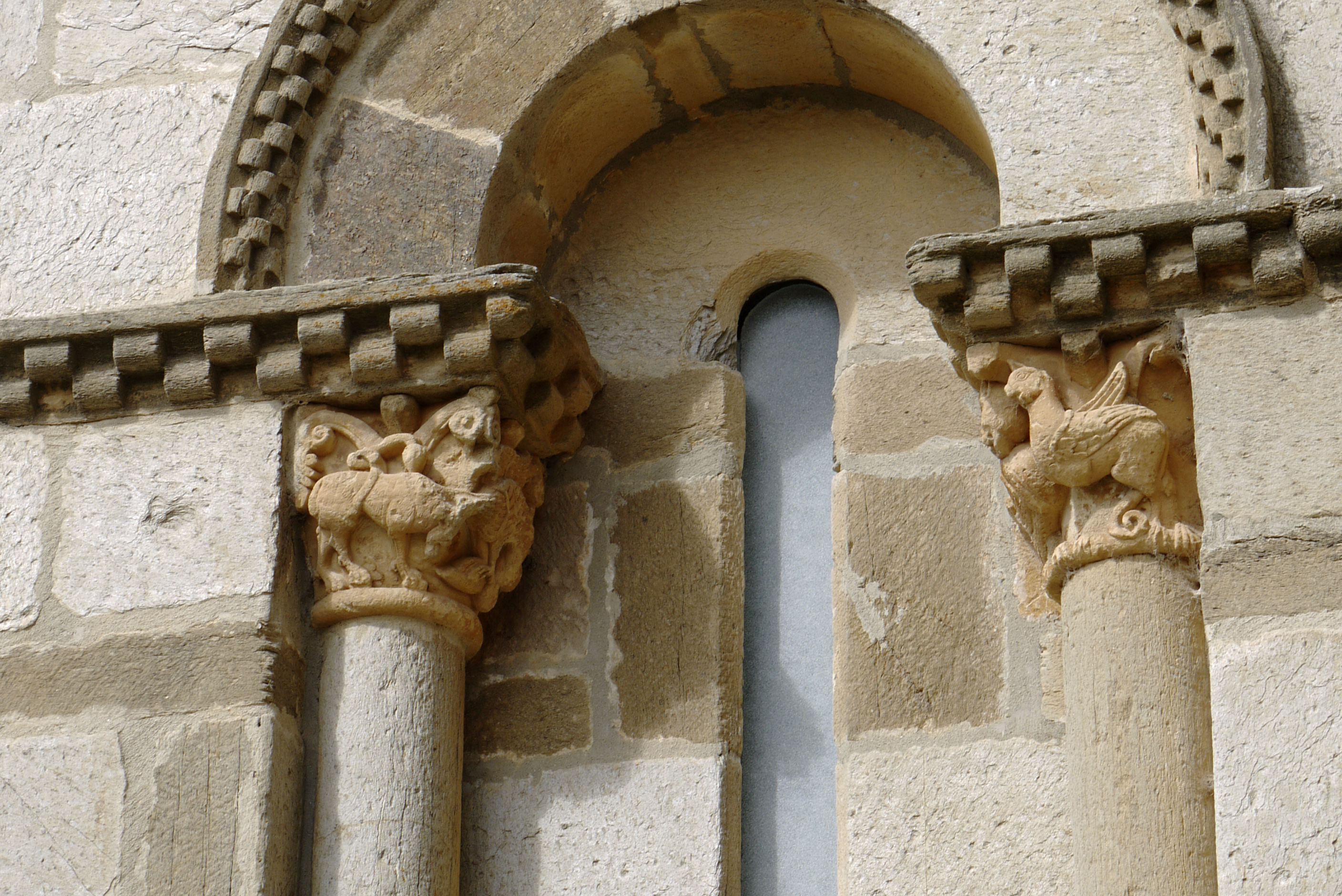 Detail, in the church Santa Marta de Tera, Benavente, Zamora, Spain.